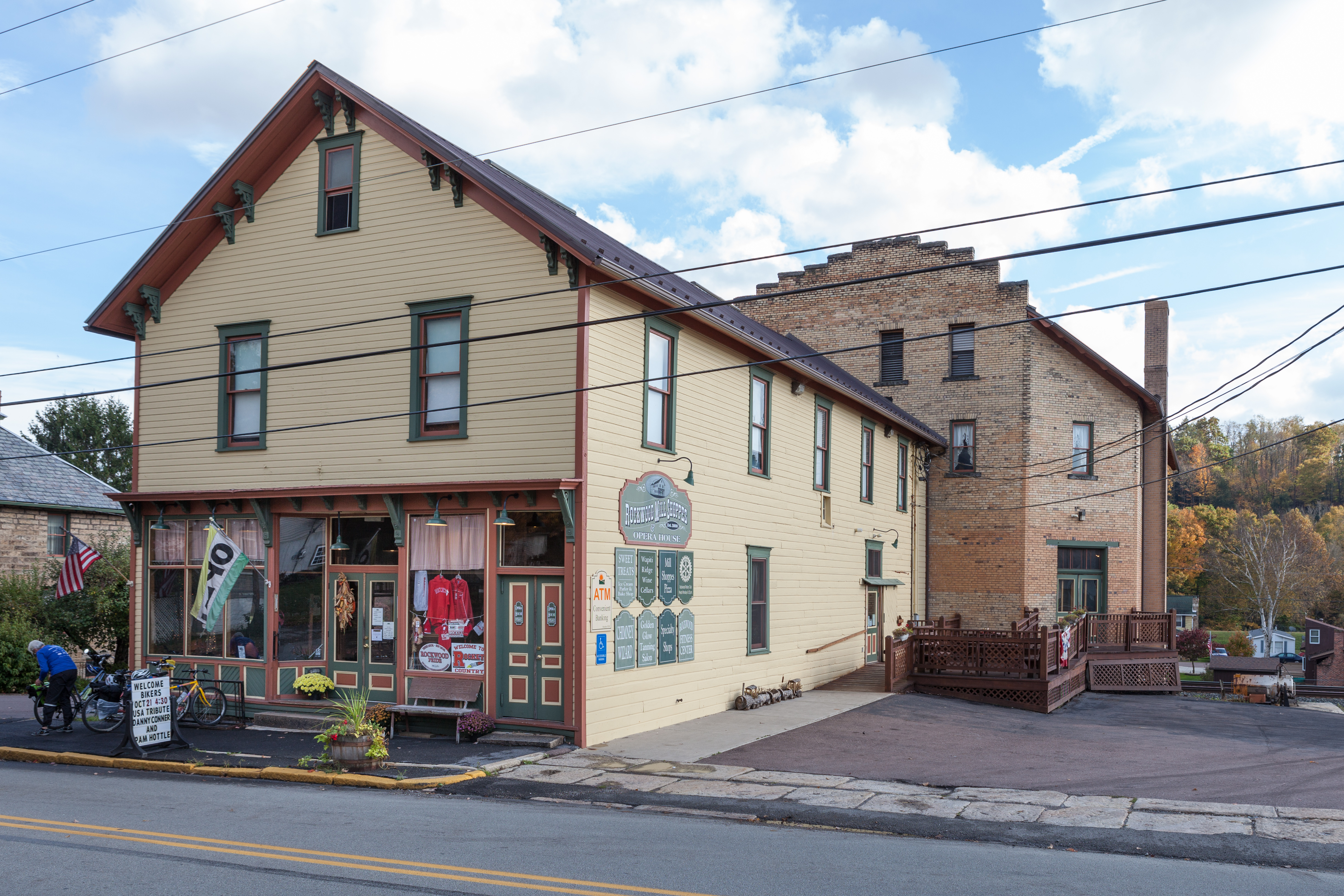 The north and west facing sides of the Penrose Wolf Building, also known as the Rockwood Opera House and now the Rockwood Mill Shoppes, is a historic commercial building located at Rockwood, Somerset County, Pennsylvania